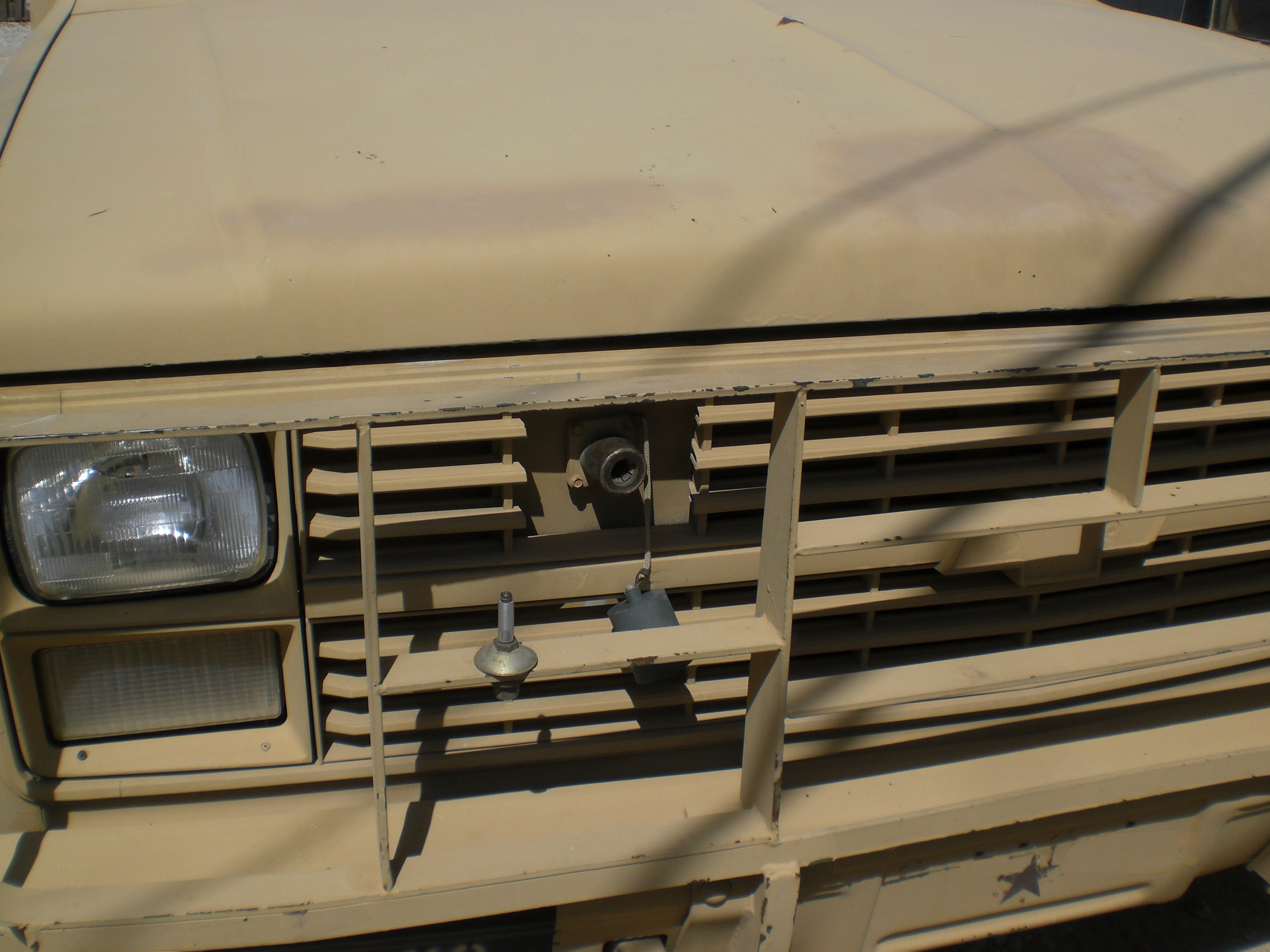 View of a slave receptacle on an M1009 CUCV.